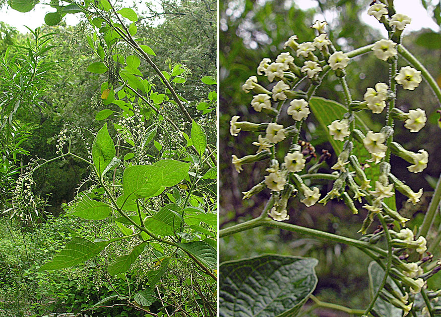 Found from Mexico and the Caribbean to Peru. Jardin Etnobotanico, Cuernavaca, Mexico. In context at